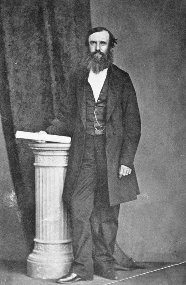 Portrait of John McDouall Stuart.